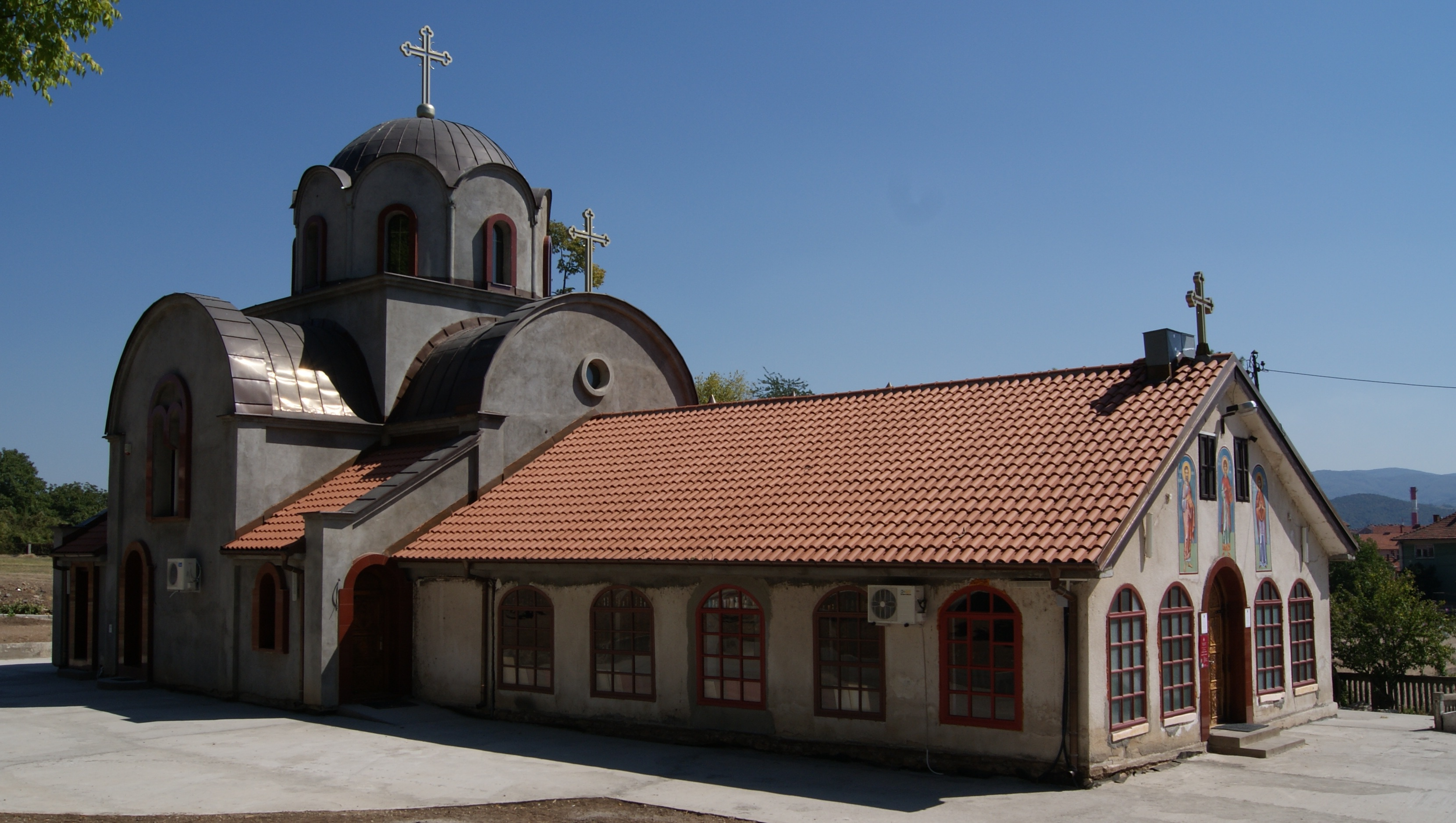 Ortodox church in Nis, Serbia